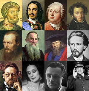 updated copy of Template:Russians_mosaic , the update was to include gagarin and make the russians collage look better